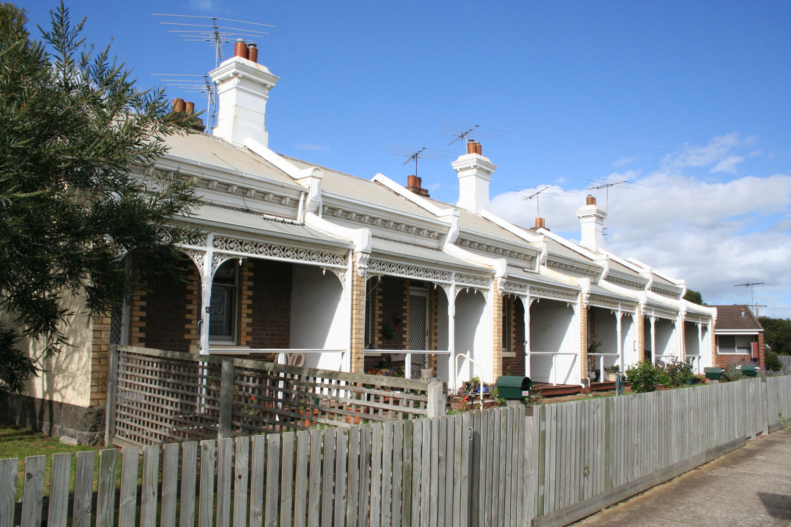 Austin Hall and Austin Terraces - clocktower - South Geelong, Victoria, Australia